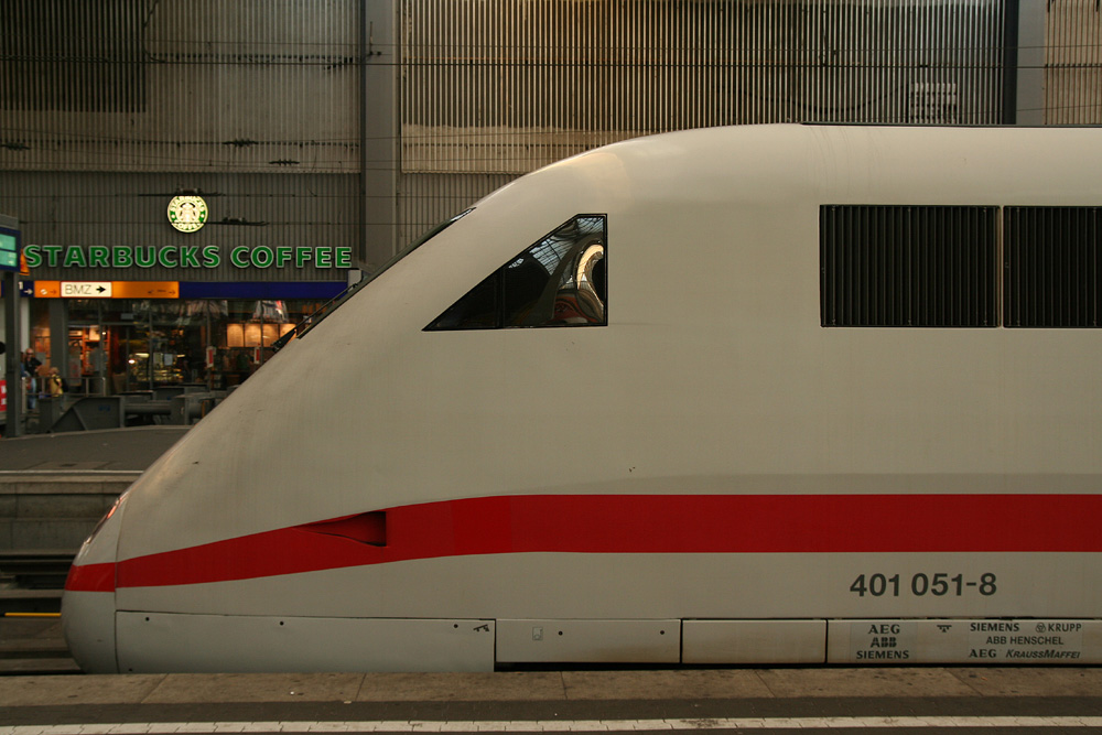 The ICE 1 power head 401 051. This head is a part of the train 151 that was mostly destroyed in the Eschede train desaster on June 3rd, 1998.